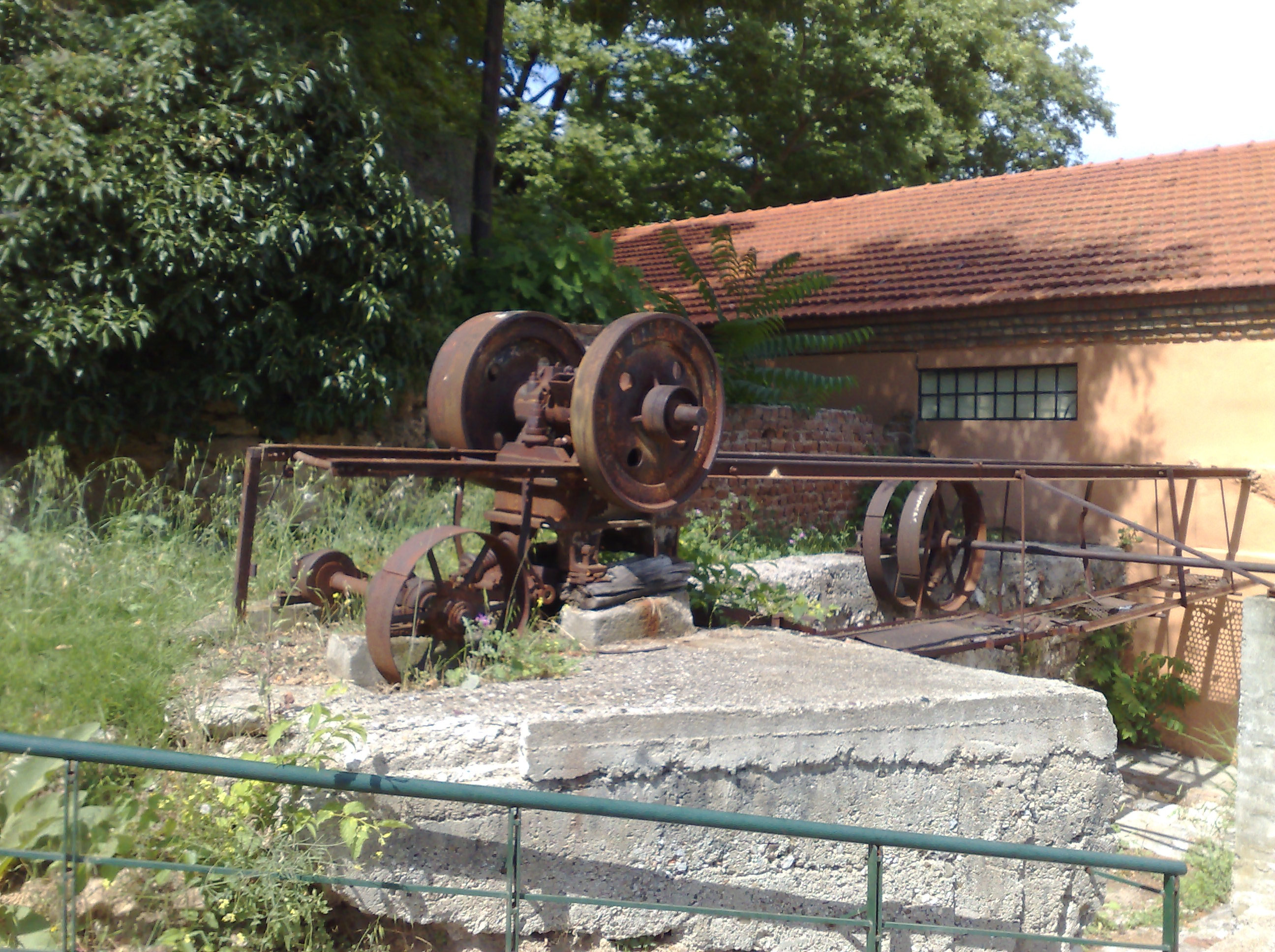 Watermill at the city of Edessa, Pella prefecture, Greece.